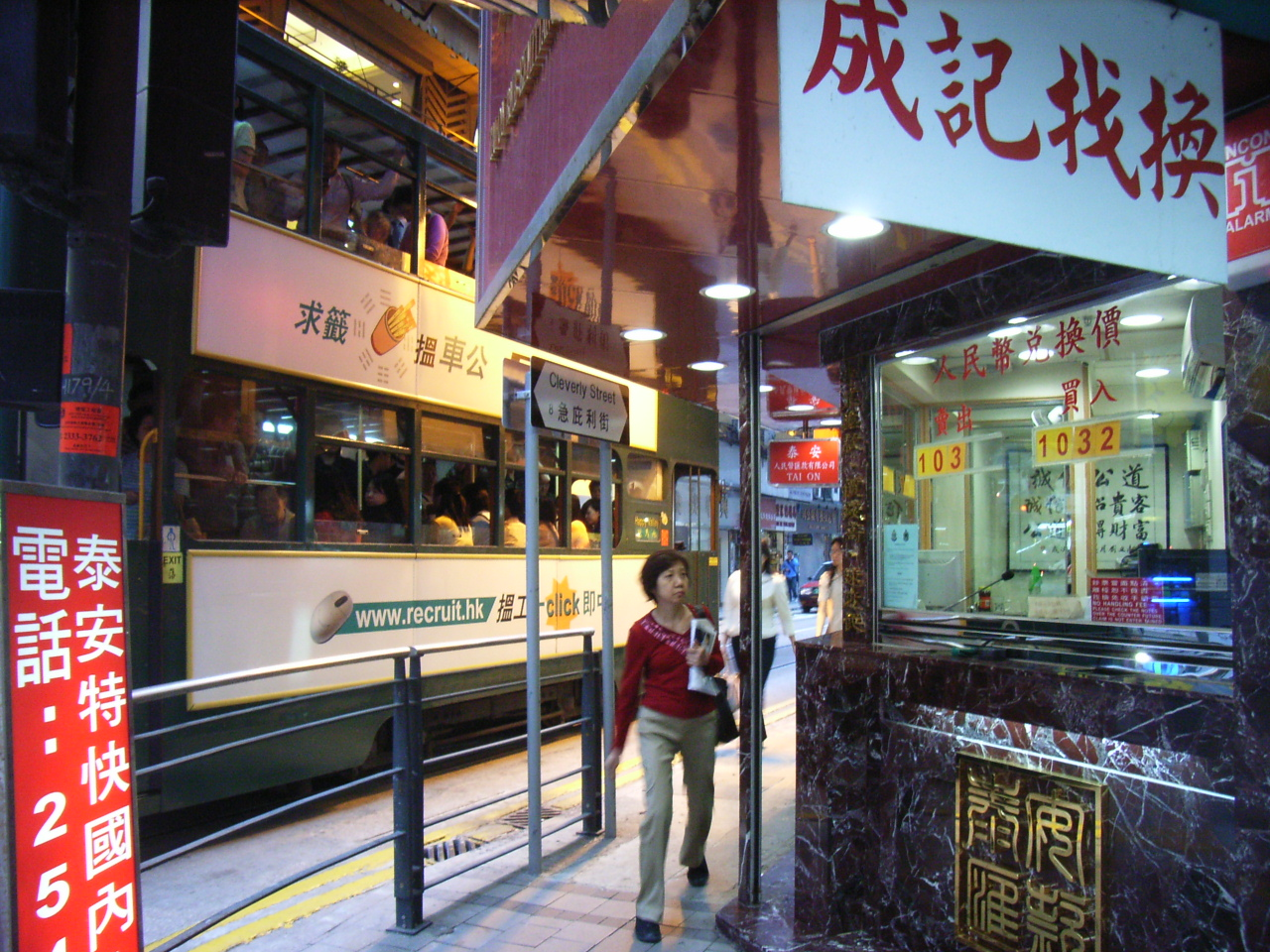 Currency exchange & remittance in Chinese RMB / HK Dollars are active in the Cleverly Street, Sheung Wan, HK 急庇利街的外匯zh:商店